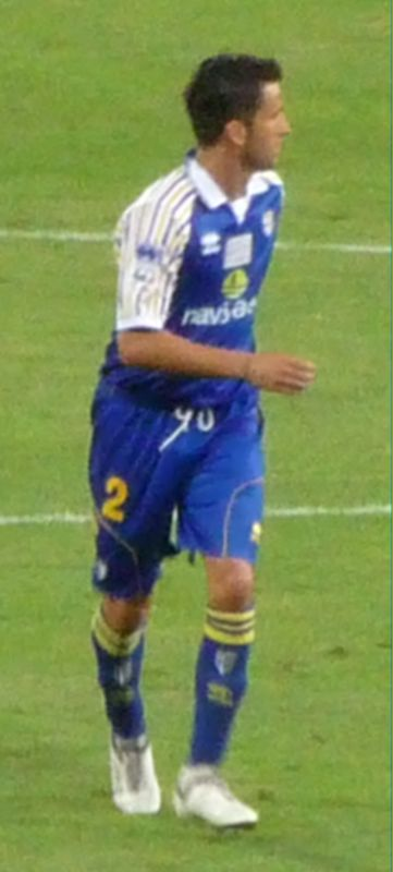 Udinese - Parma 2-2 23/08/2009